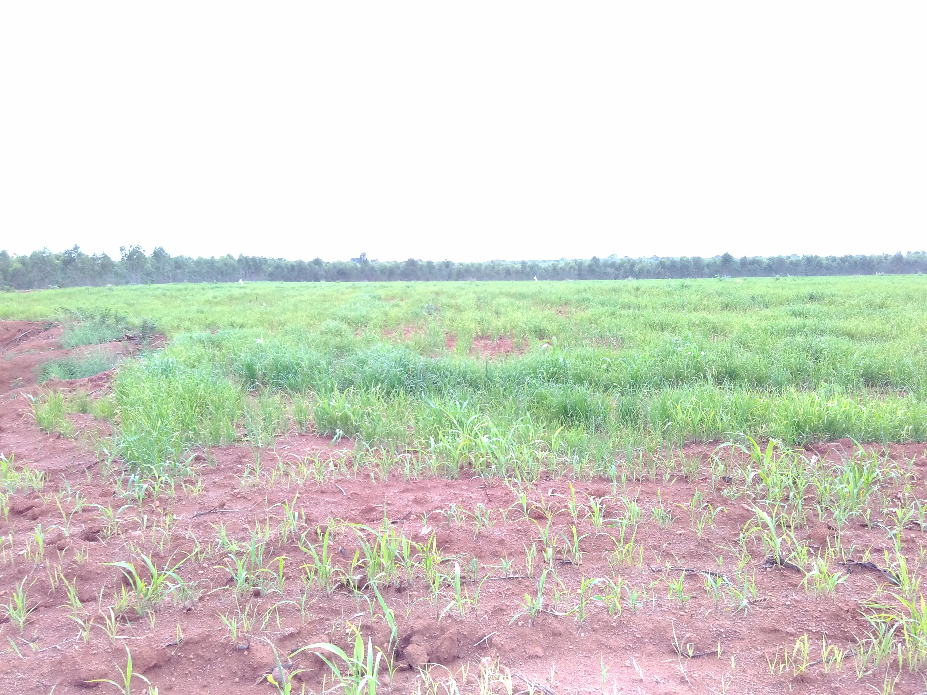 ರಾಗಿ ಬೆಳೆ